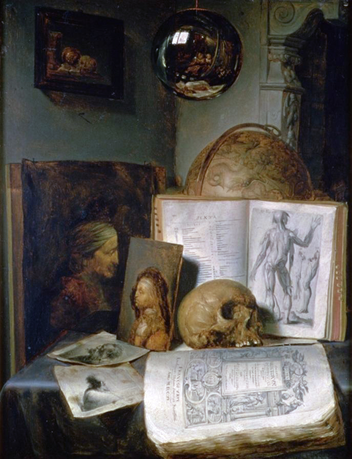 Still Life with a Skull (c. 1650), by Gerard Dou, Muzeum Narodowe, Gdansk